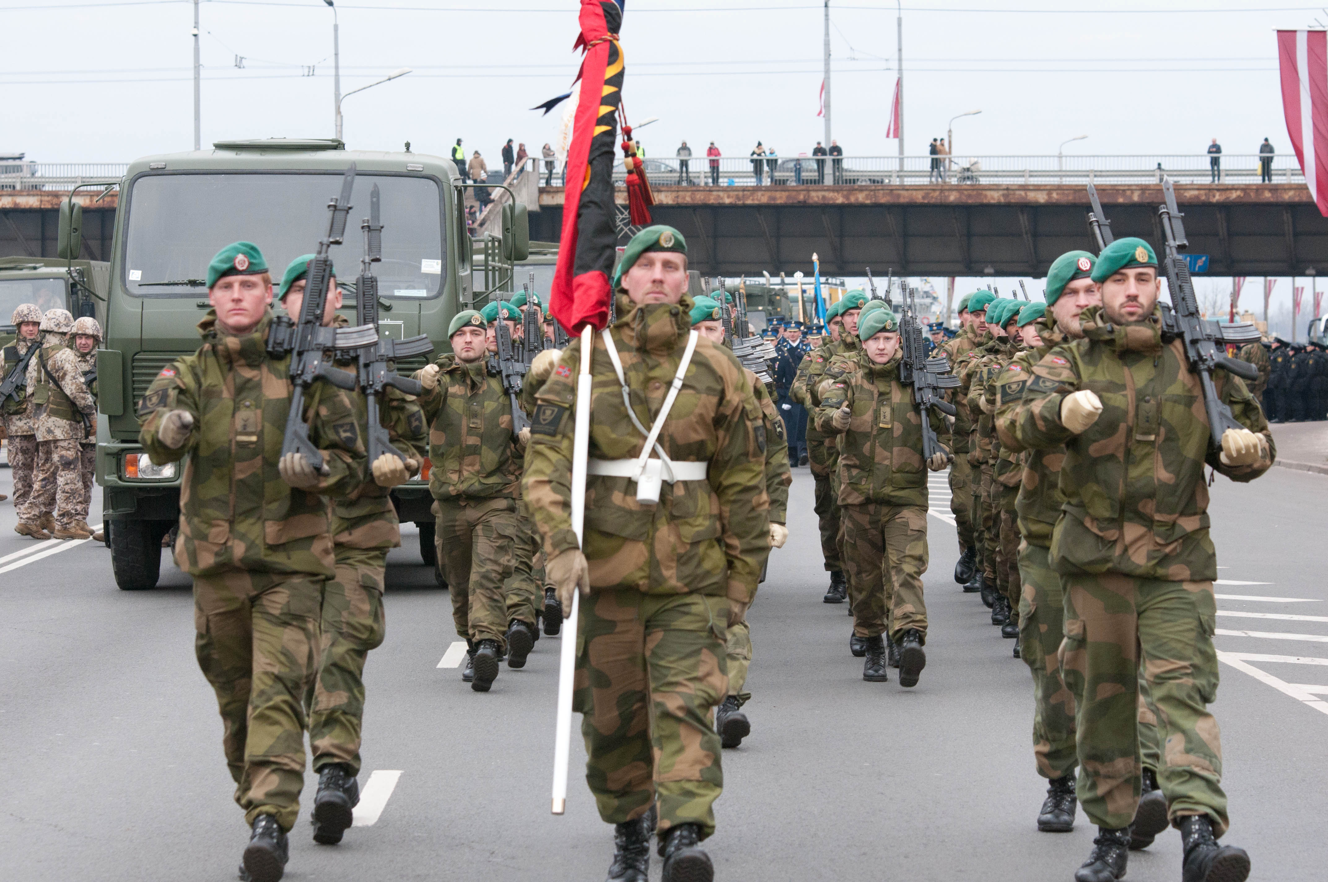 Norwegian soldiers from Telemark Battalion, Task Force Viking, march to their staging position for the Latvia Day Parade in Riga, Latvia, on November 18, 2014. Norwegian and U.S. forces marched in the parade as a show of solidarity for their Latvian brothers-in-arms. These activities are part of the U.S. Army Europe-led Operation Atlantic Resolve land force assurance training exercise taking place across Estonia, Latvia, Lithuania and Poland to enhance multinational interoperability, strengthen relationships among allied militaries, contribute to regional stability and demonstrate U.S. commitment to NATO. (U.S. Army photo by Staff Sgt. Kenneth C. Upsall)